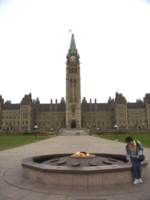 The centre block of the Parliament of Canada, Ottawa, with the Peace Tower and the Centennial Flame.